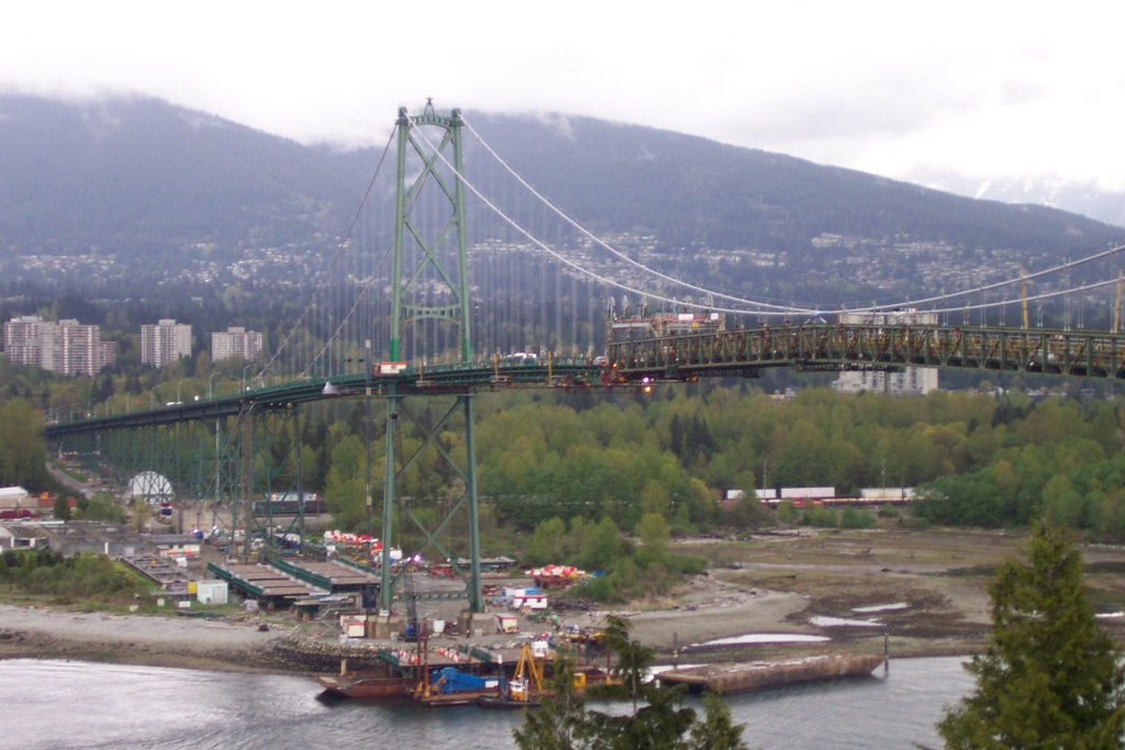 Lions Gate Bridge in Vancouver, BC, Canada progress of replacement of the vehicle bridge deck while maintaining traffic flow. April 22, 2001